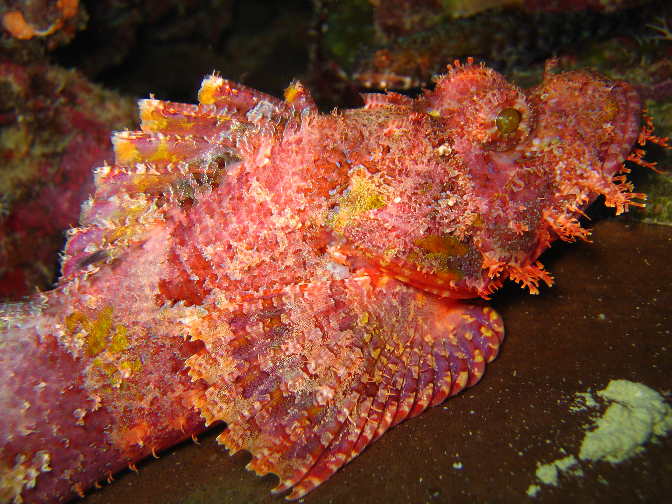 Portrait of a Smallscale Scorpionfish (Scorpaenopsis oxycephala). North Horn, Osprey Reef, Coral Sea